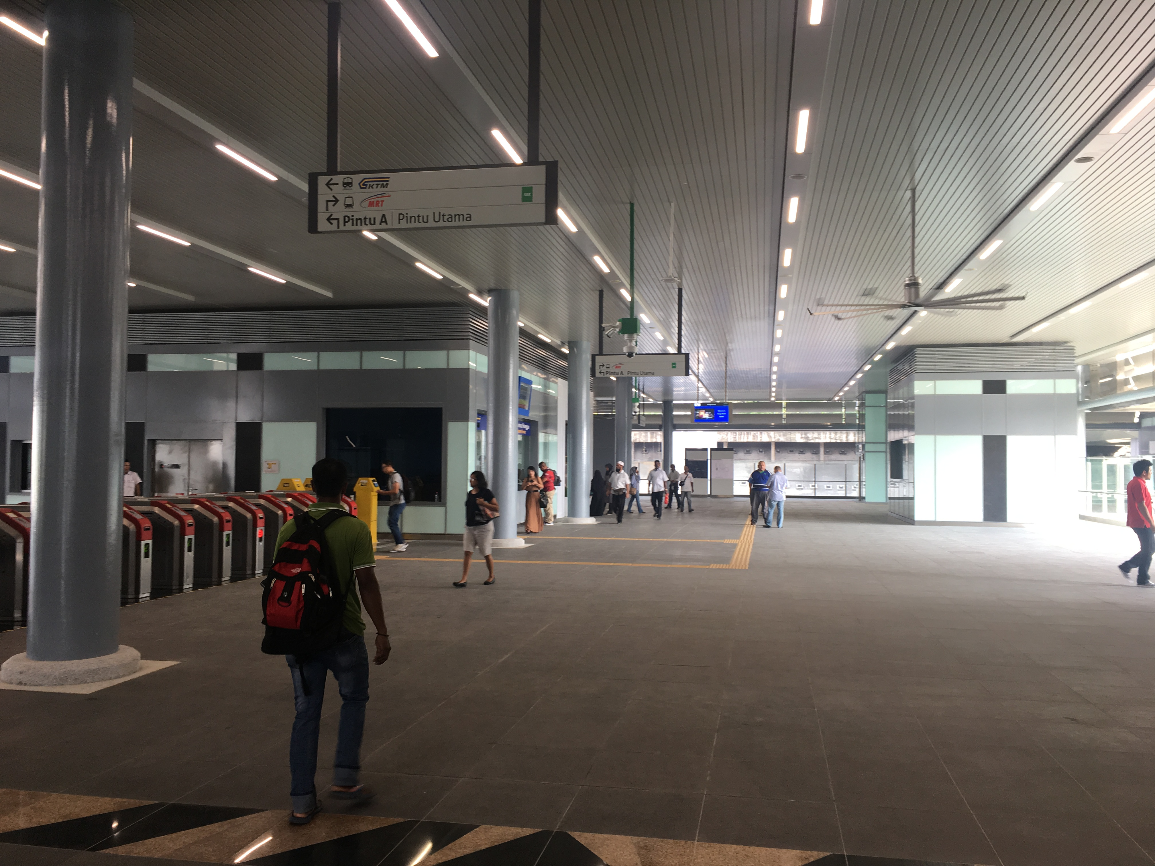 View of the common concourse of the Sungai Buloh KTM and MRT Station from the Jalan Kuala Selangor overhead bridge entrance.